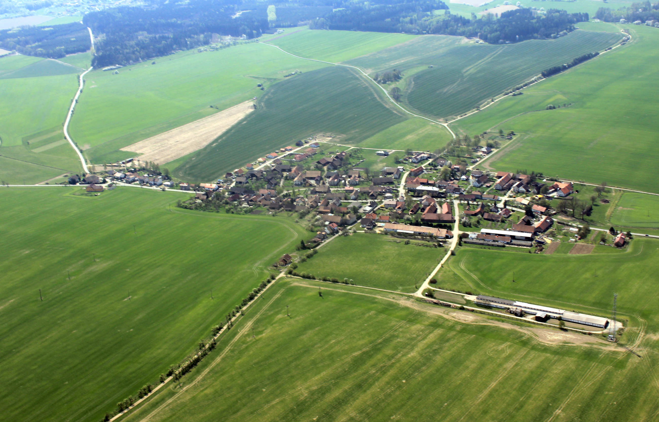 Small village Houdkovice, part of village Trnov in Rychnov nad Kněžnou District from air, eastern Bohemia, Czech Republic